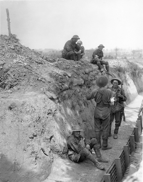 Wounded soldiers from the Australian 49th Battalion during the Battle of Messines, 7 June 1917